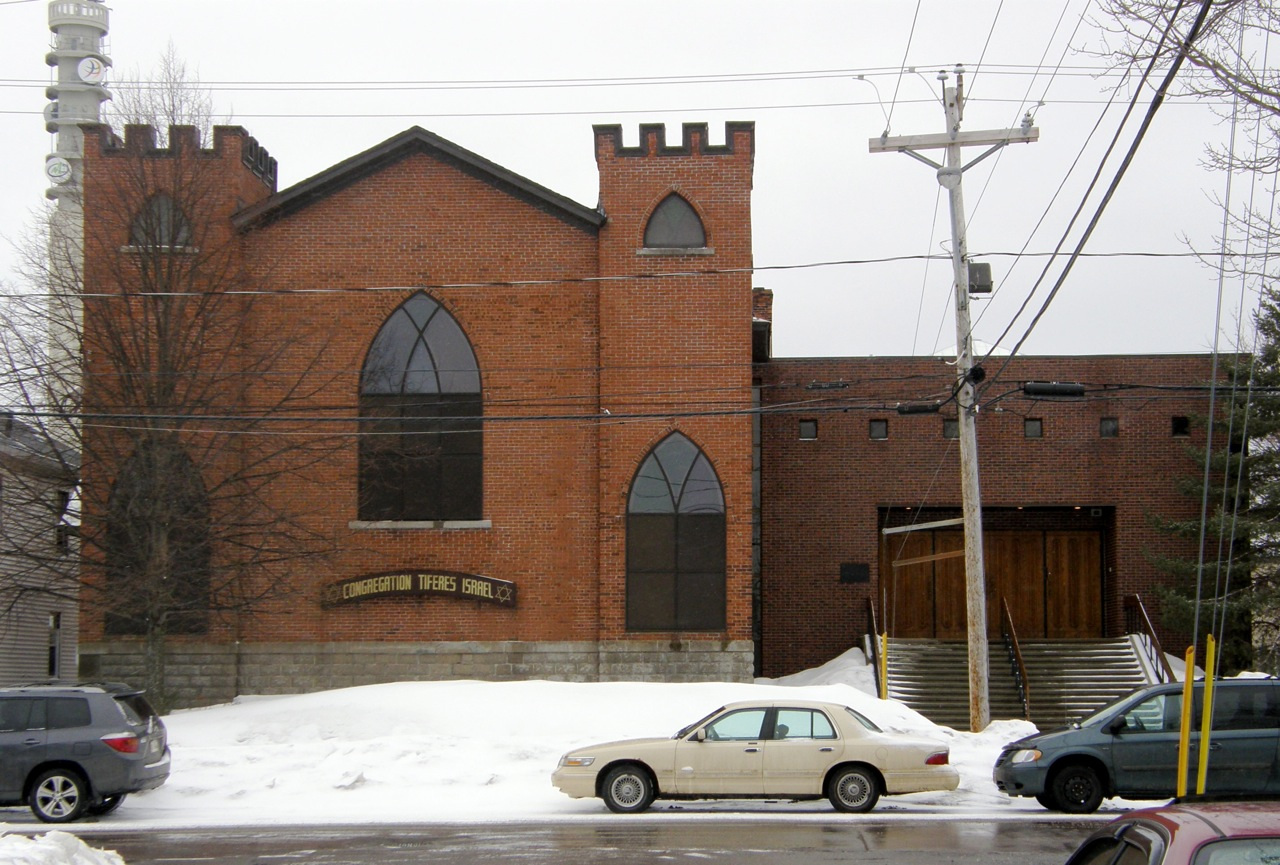 Congregation Tiferes Israel synagogue, Moncton, New Brunswick, Canada.